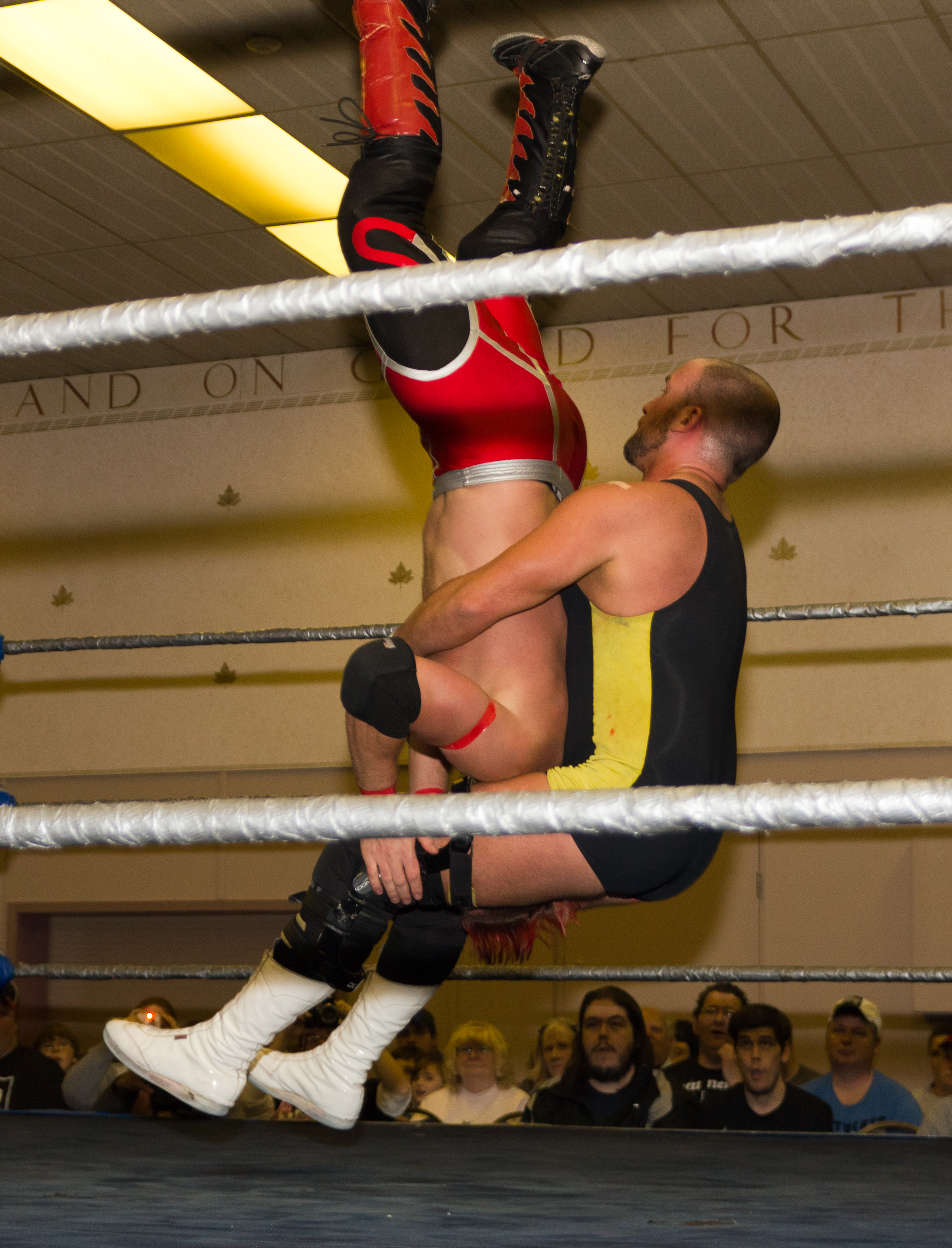 Jake O'Reilly executes a jumping piledriver on Scotty the Body (not to be confused with Scott Levy) at a Stampede Wrestling event on November 6 2011.